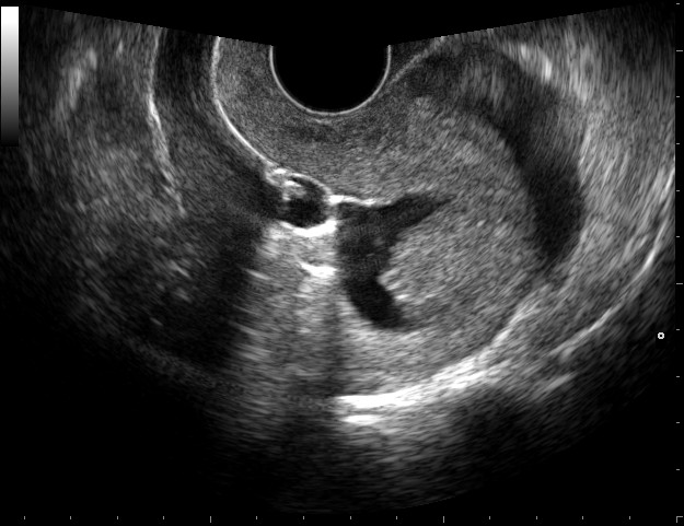 Sonohysterography. Sonohysterography is a technique to image the uterine cavity. Sterile saline is infused through a catheter to distend the uterine cavity. This allows seperation of contours of endometrium from the pathology.